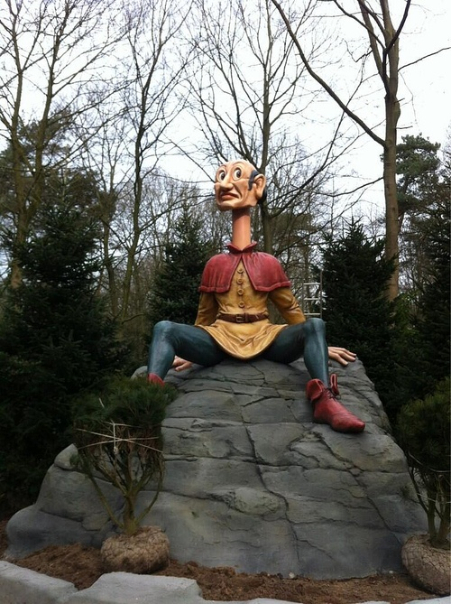 Langnek 2013